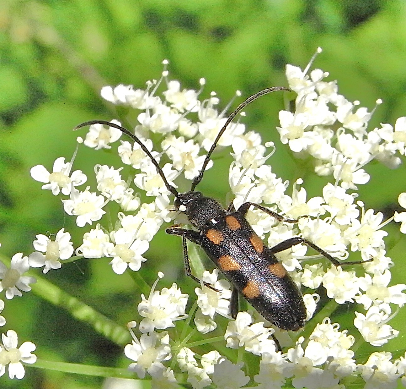 Anoplodera sexguttata from Hungary Ricoh R8